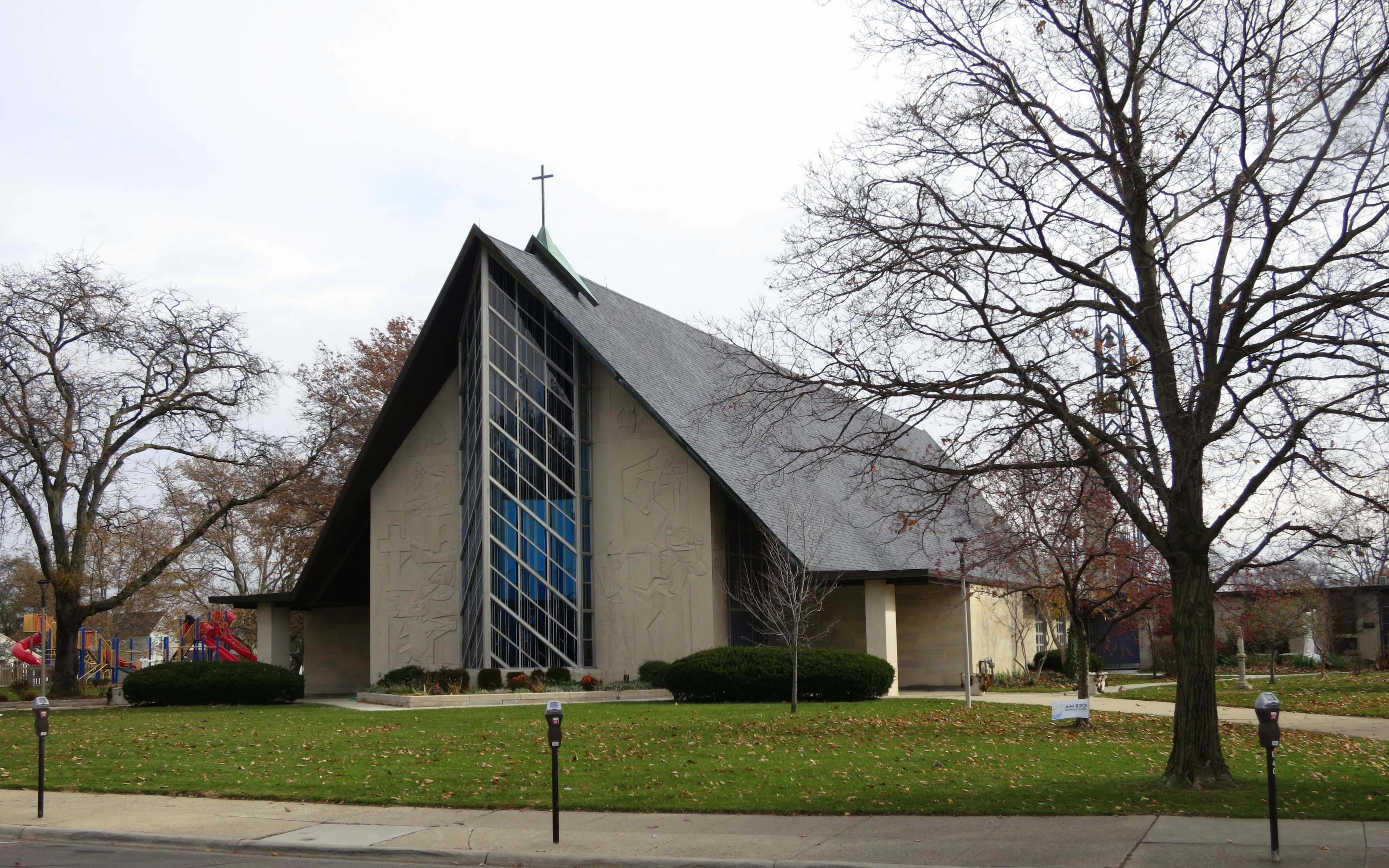 Saint Christopher Catholic Church (Columbus, Ohio) - exterior